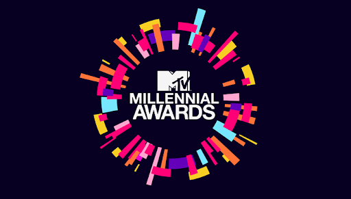 MTV Millennial Awards' logo